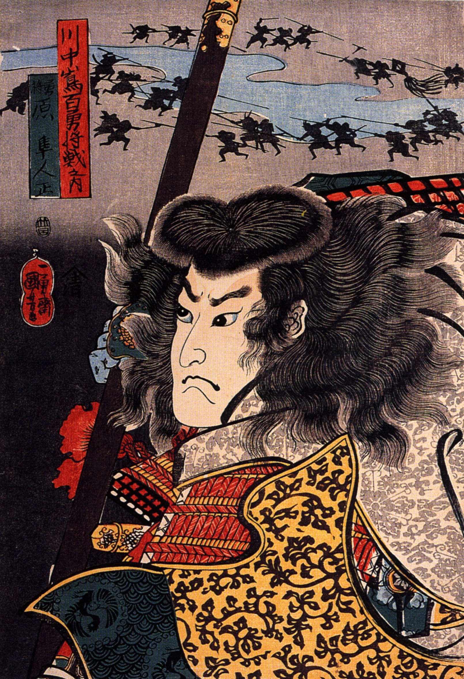 From One hundred generals, brave at battle, at Kawanakajina This print illustrates the bare-headed Takeda warrior Hara Hayato no sho holding hes spear.